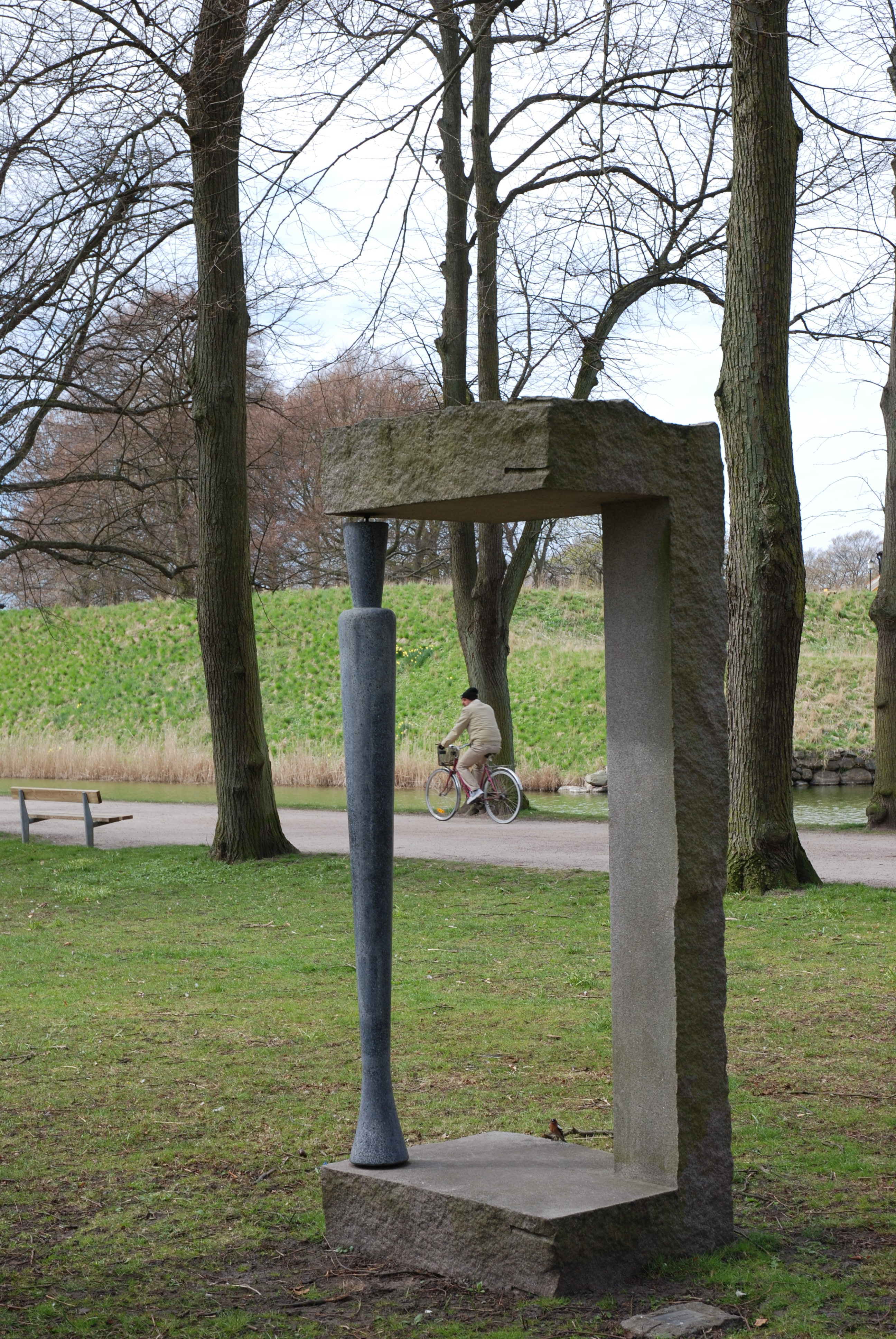 Acke Hydén´s Oxymoron, Landskrona, Sweden